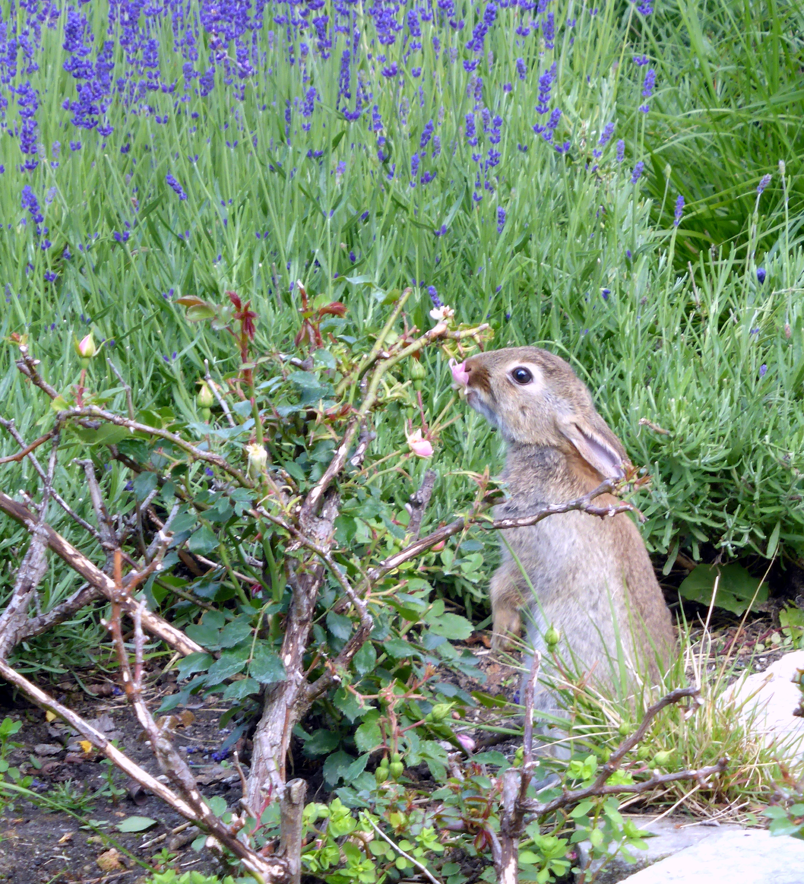 Young European rabbit enjoying some roses